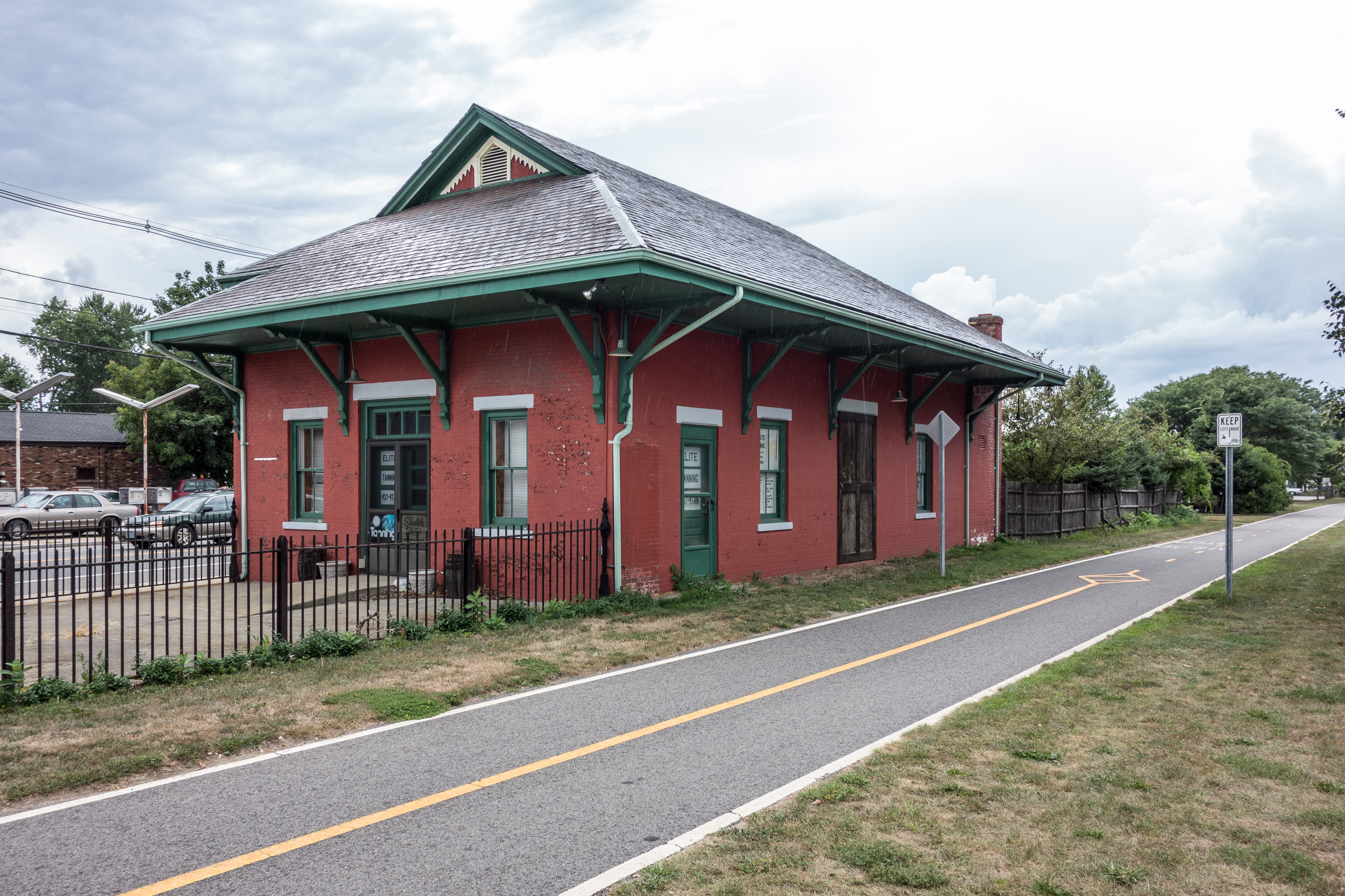 Old Colony Riverside (Rhode Island) train station. Railroad tracks are now the East Bay Bicycle Path. Currently it houses Borealis Coffee Roasters.